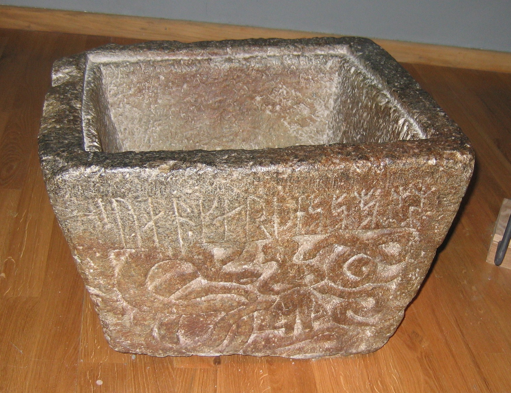 A baptismal font from Norum church showing Gunnar in the snake pit. Norum church is situated in Norum parish, Stenungsund municipality, Bohuslän, Västra Götaland county, Sweden.